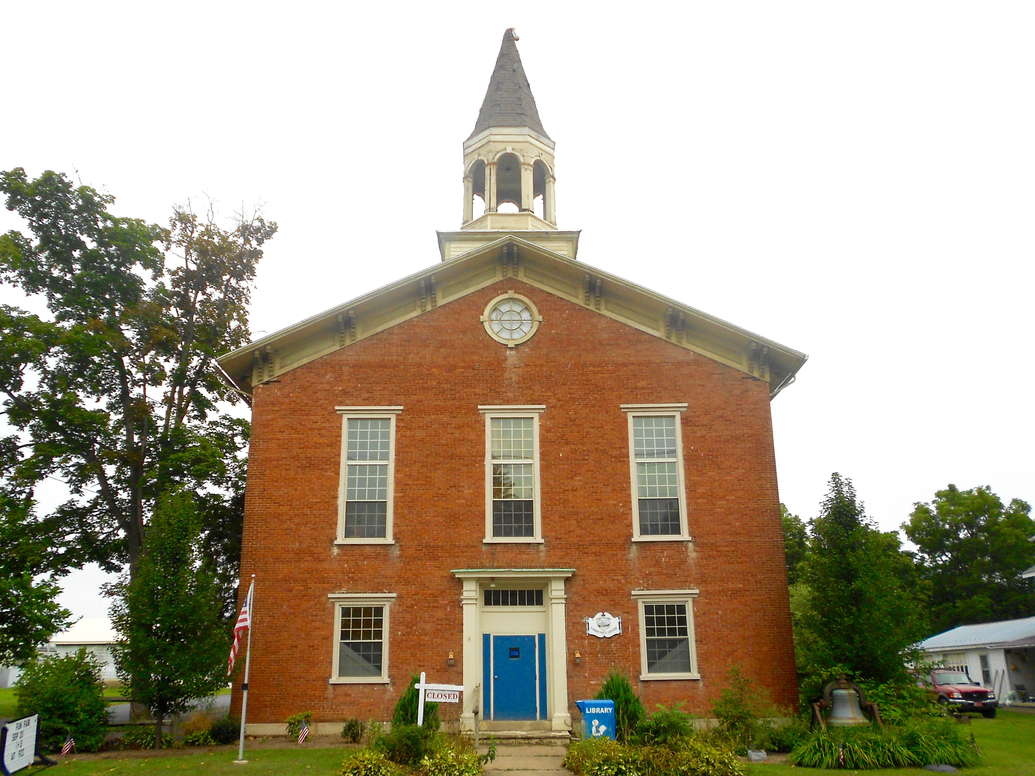 Former Presbyterian Church, now the Friendship Community Center and Library in Beech Creek, Clinton County, Pennsylvania